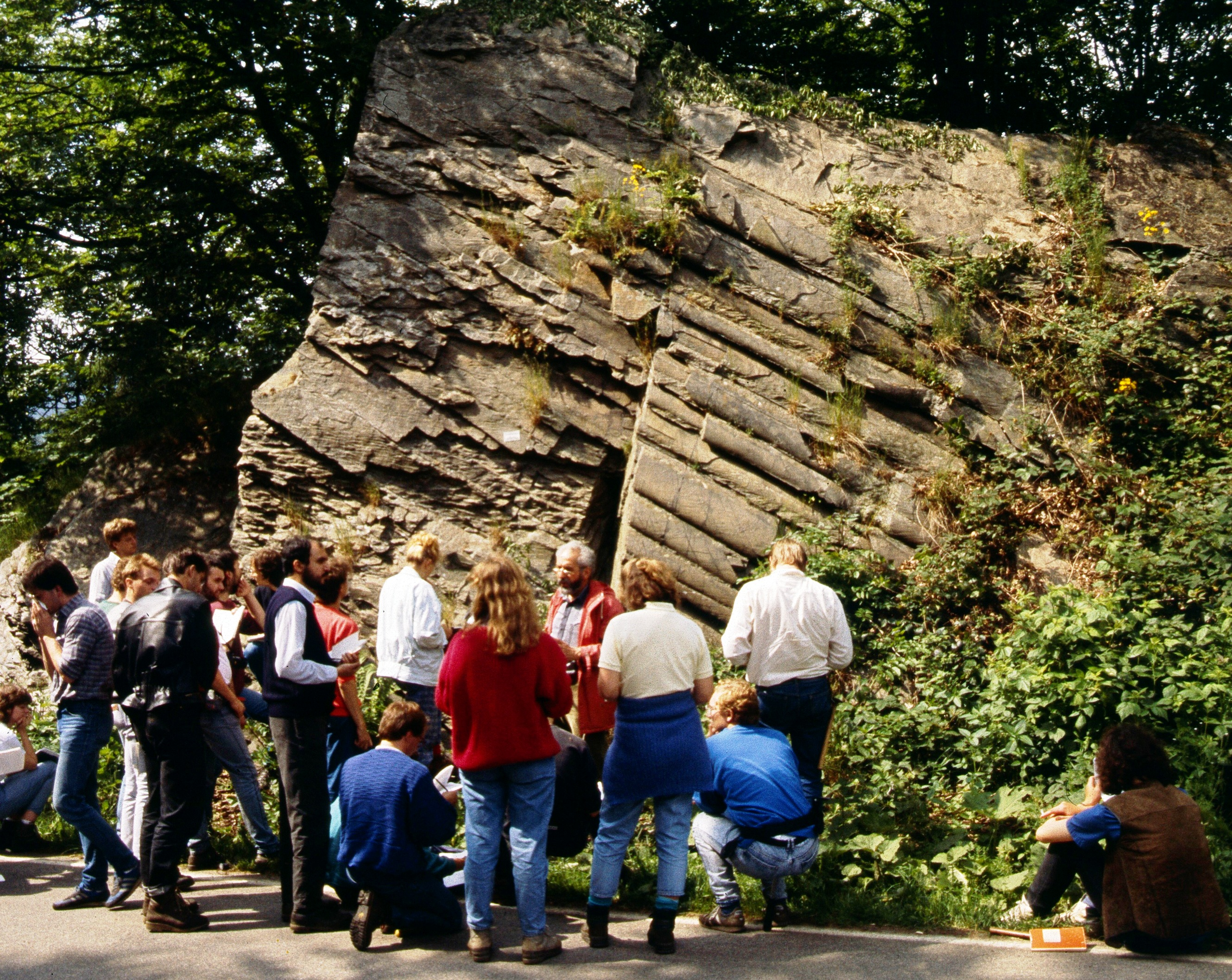 Mullions in rock of Devonian age at Dedenborn, in North Rhine-Westphalia in Germany.